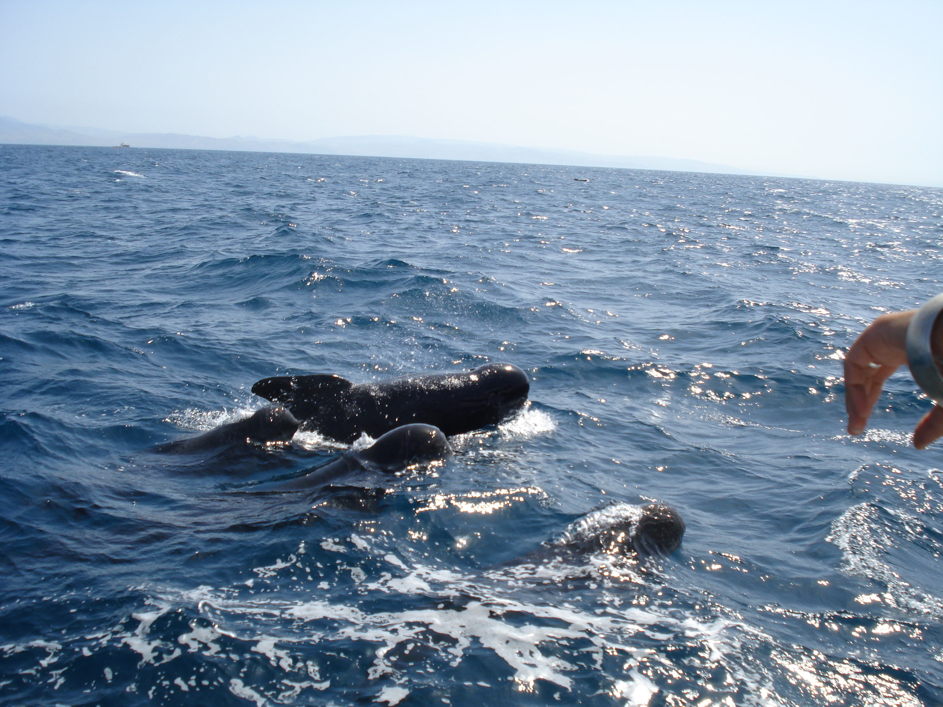 Whale watching: pilot whales near Tarifa (Spain) in summer 2008